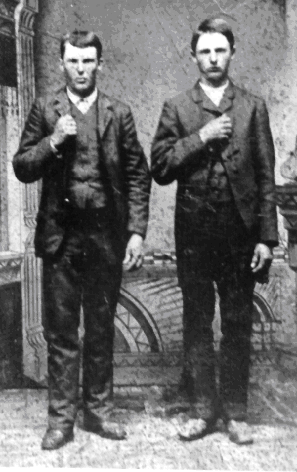 Jesse (25) and Frank James (29), 1872, Carolinda, Illinois.